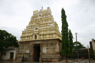 Sri Viranarayana Temple Gadag